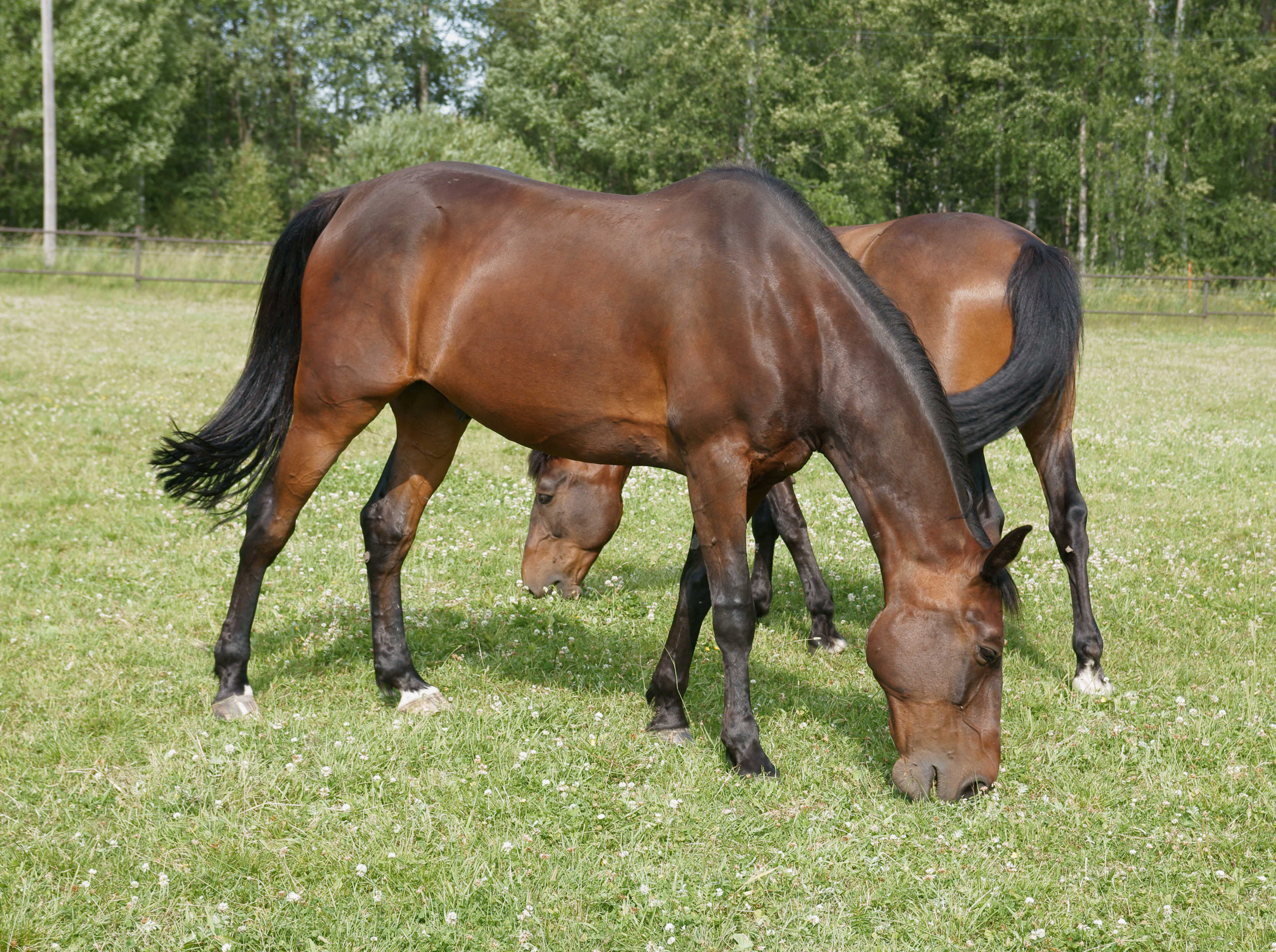 Standardbred horse and a finnhorse gelding.